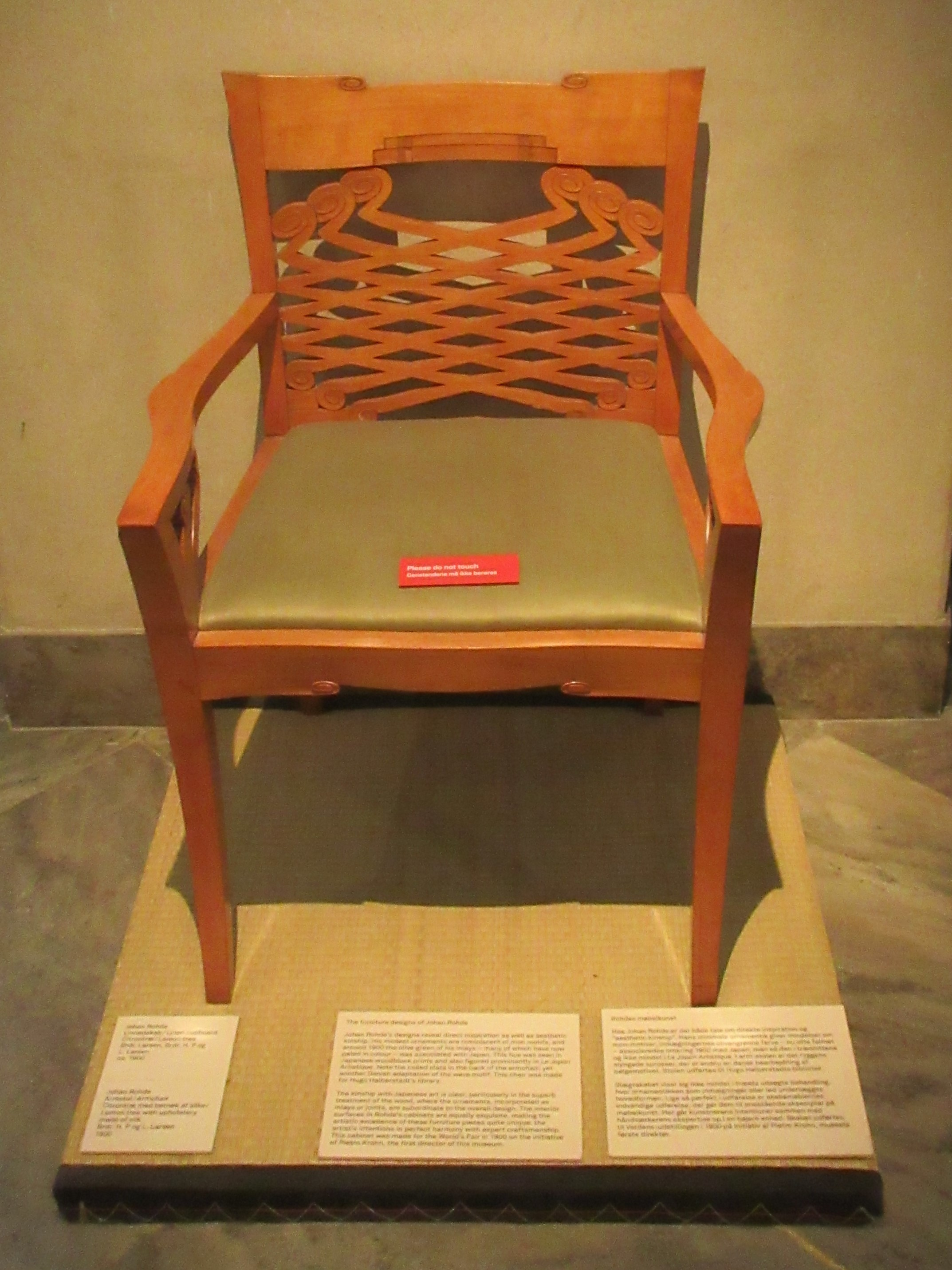 Chair designed by Johan Rohde on display in the Danish Design Museum in Copenhagen, Denmark.